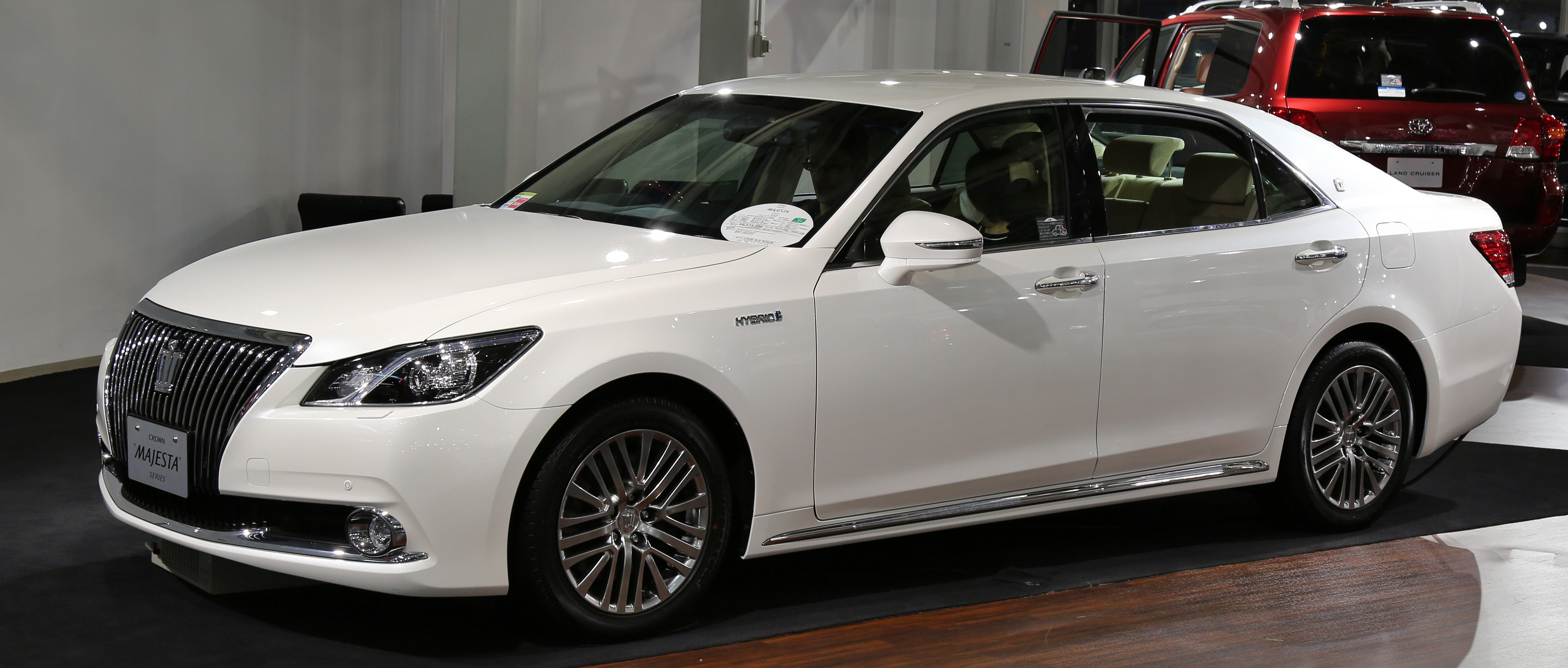 Toyota Crown Majesta